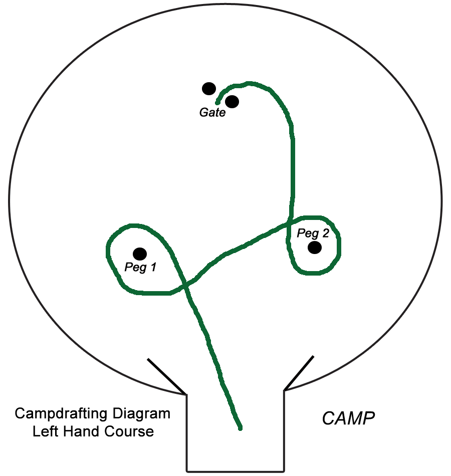 Campdrafting diagram based on [1]